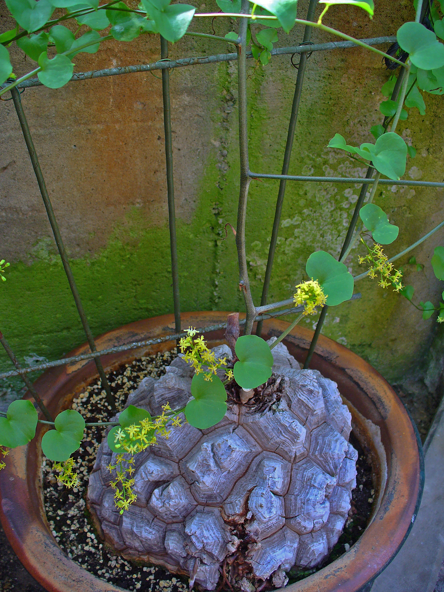 Dioscorea elephantipes, Dioscoreaceae, Elephant's Foot, Hottentot bread, habitus; Botanical Garden KIT, Karlsruhe, Germany. The plant is used in homeopathy as remedy: Dioscorea elephantipes (Dios-e.)